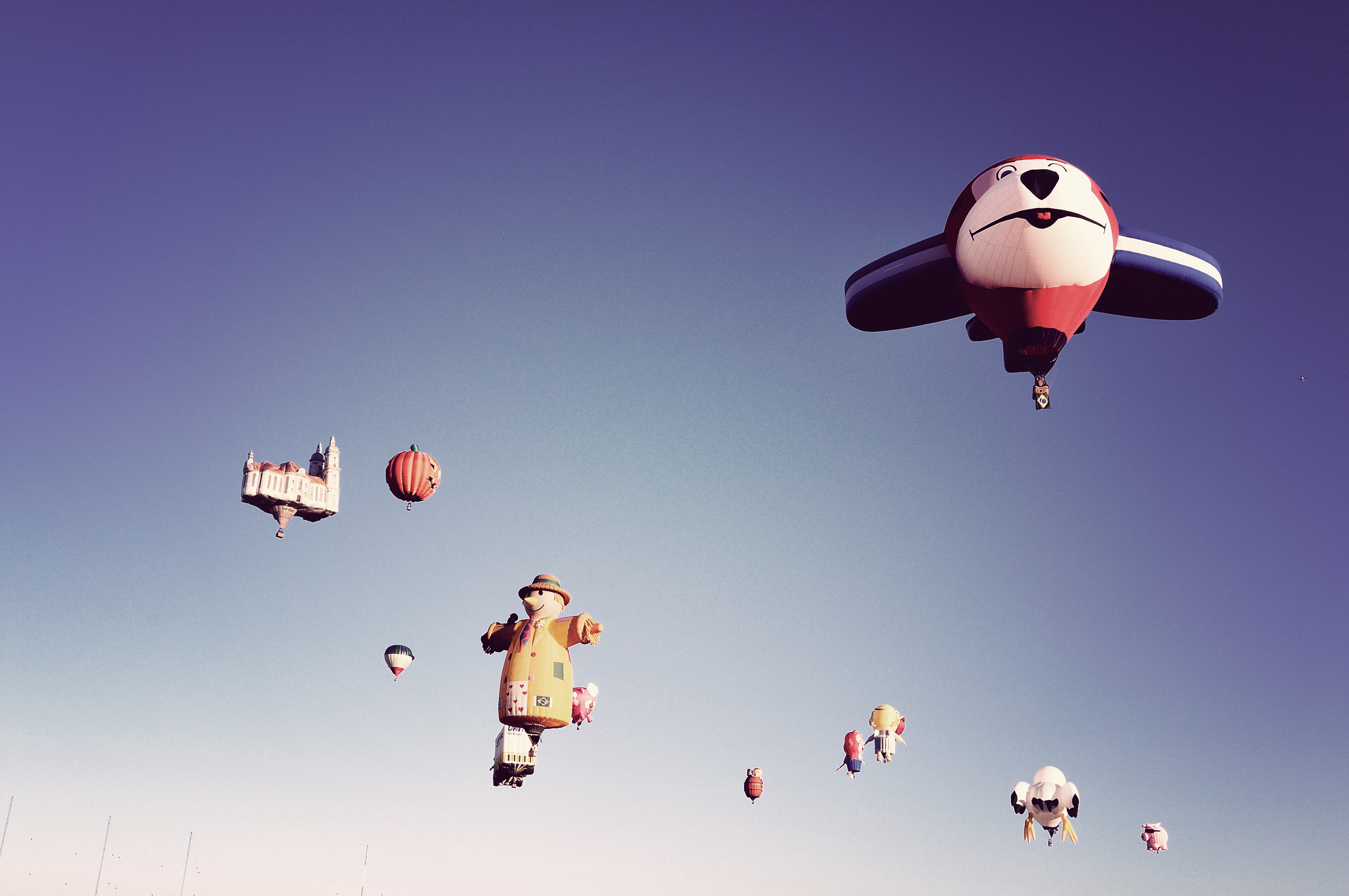 Albuquerque International Balloon Fiesta, special shapes, 2008